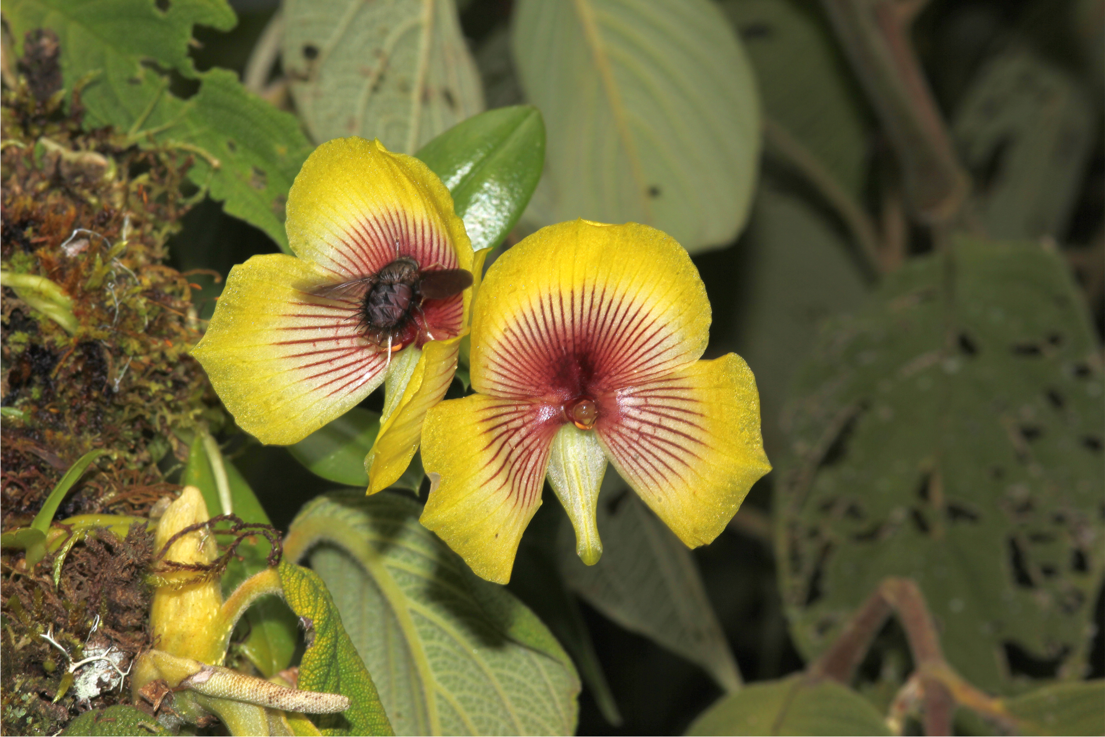 The male is performing pre-copulatory behaviour on a flower. Note the legs grasping the flower even before the male has landed.